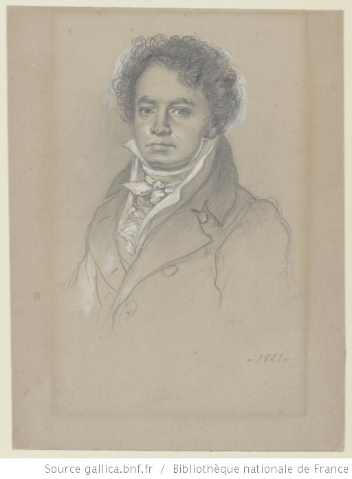 Ludwig vanBeethoven ( crayon drawing by Louis Letronne) 16 x 12 cm